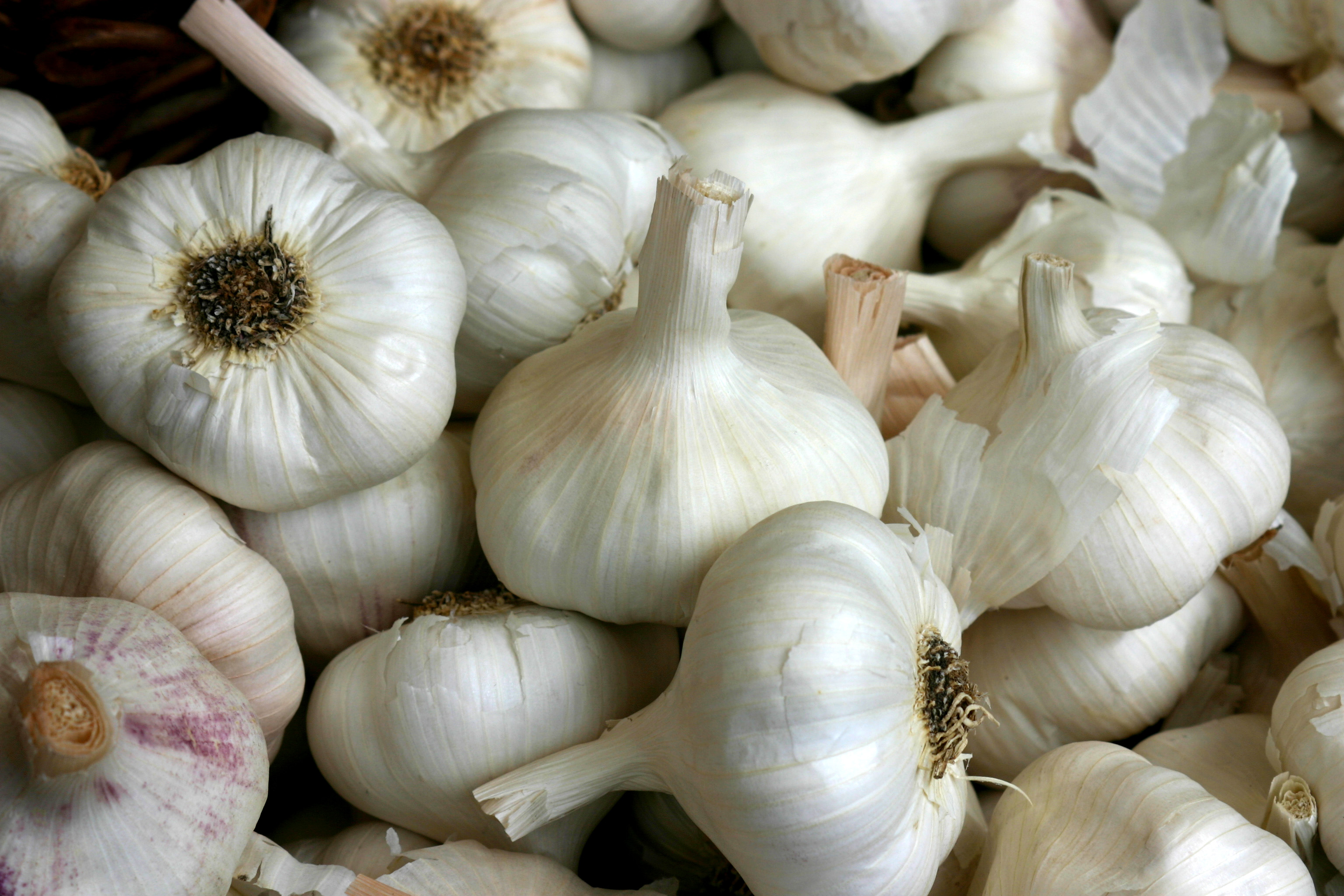 Garlic